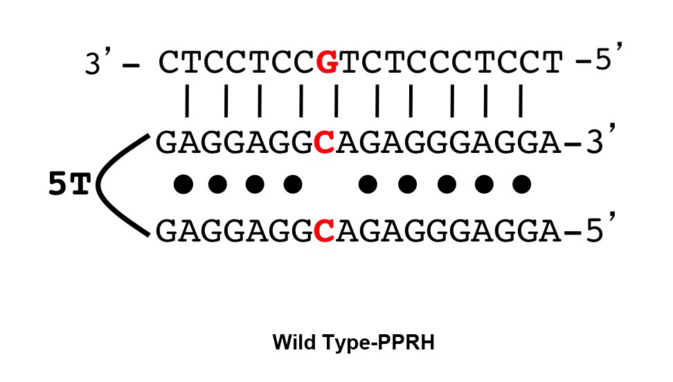 Change of nucleotide in the PPRH when targeting a polypurine stretch with purine interruptions.